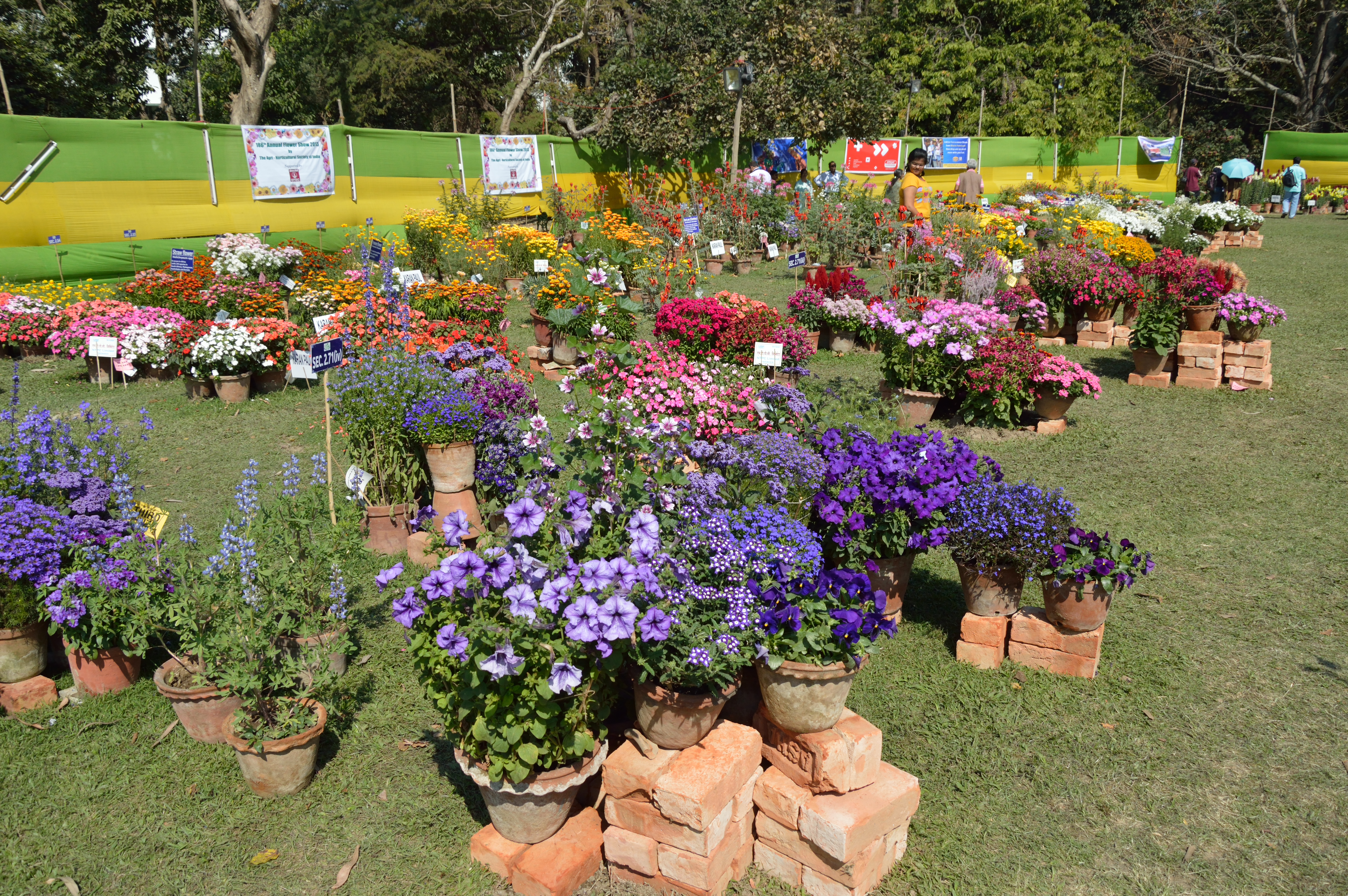 The 186th Annual Flower Show was held at the garden of the Agri-Horticultural Society of India, Alipore, Kolkata, from 7 to 10 February 2013. The exhibition comprises Bonsai, Cacti, Crotons, Dahlias, Fruits, Herbal plants, Palms, Roses, Succulents, Vegetables and perennial flowering plants in pots and uprooted.